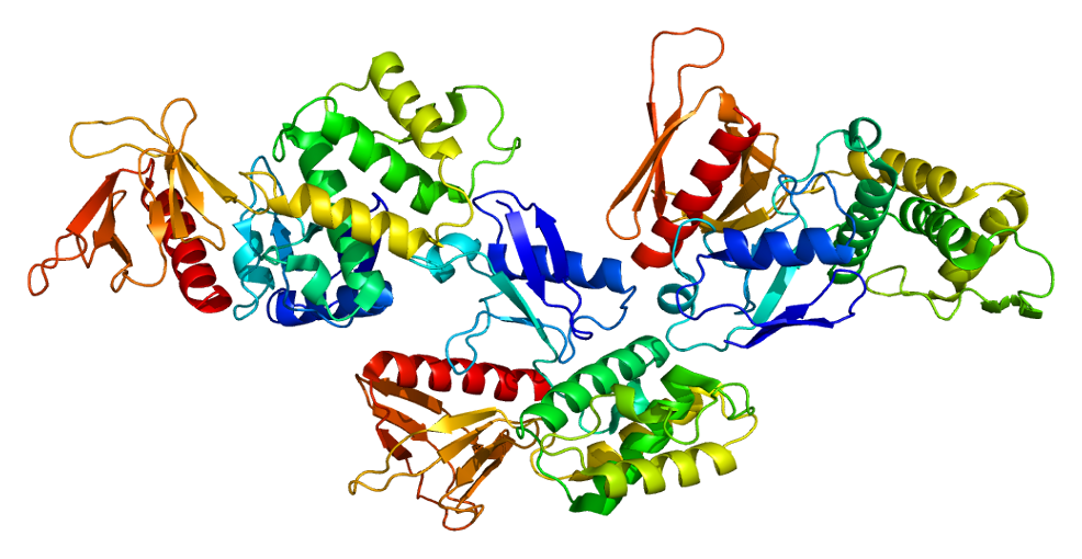 Structure of the EPB41 protein. Based on PyMOL rendering of PDB 1gg3.